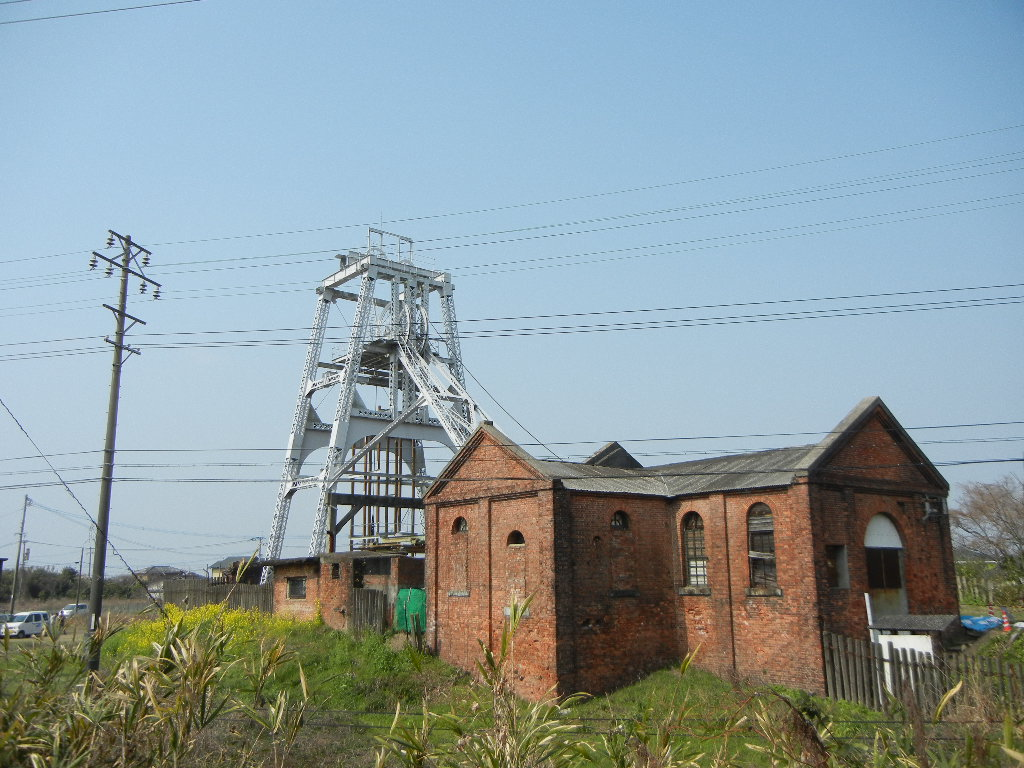 Miyaharakou. 宮原坑跡, Omuta.